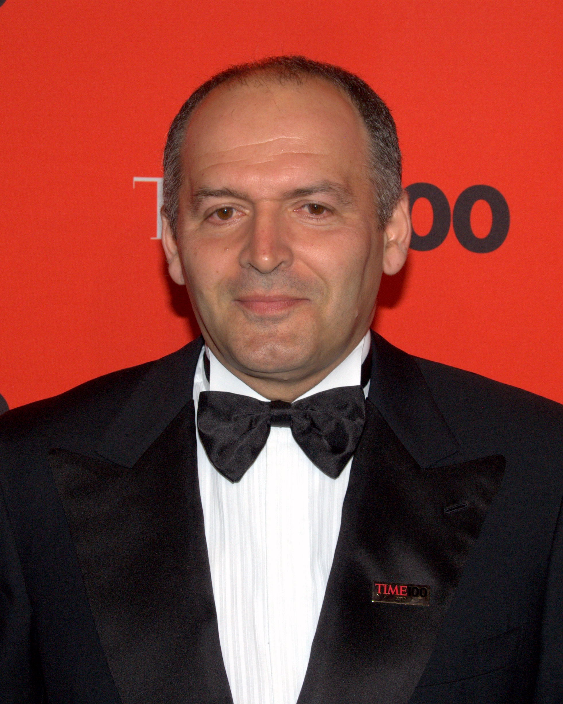 Viktor Pinchuk at the 2010 Time 100 Gala.